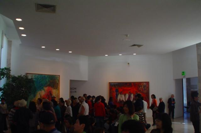 Part of interior of Musée national Marc Chagall in Nice